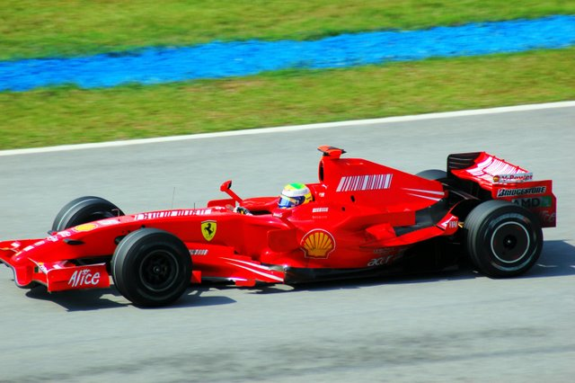 Felipe Massa driving for Scuderia Ferrari at the 2007 Malaysian Grand Prix.